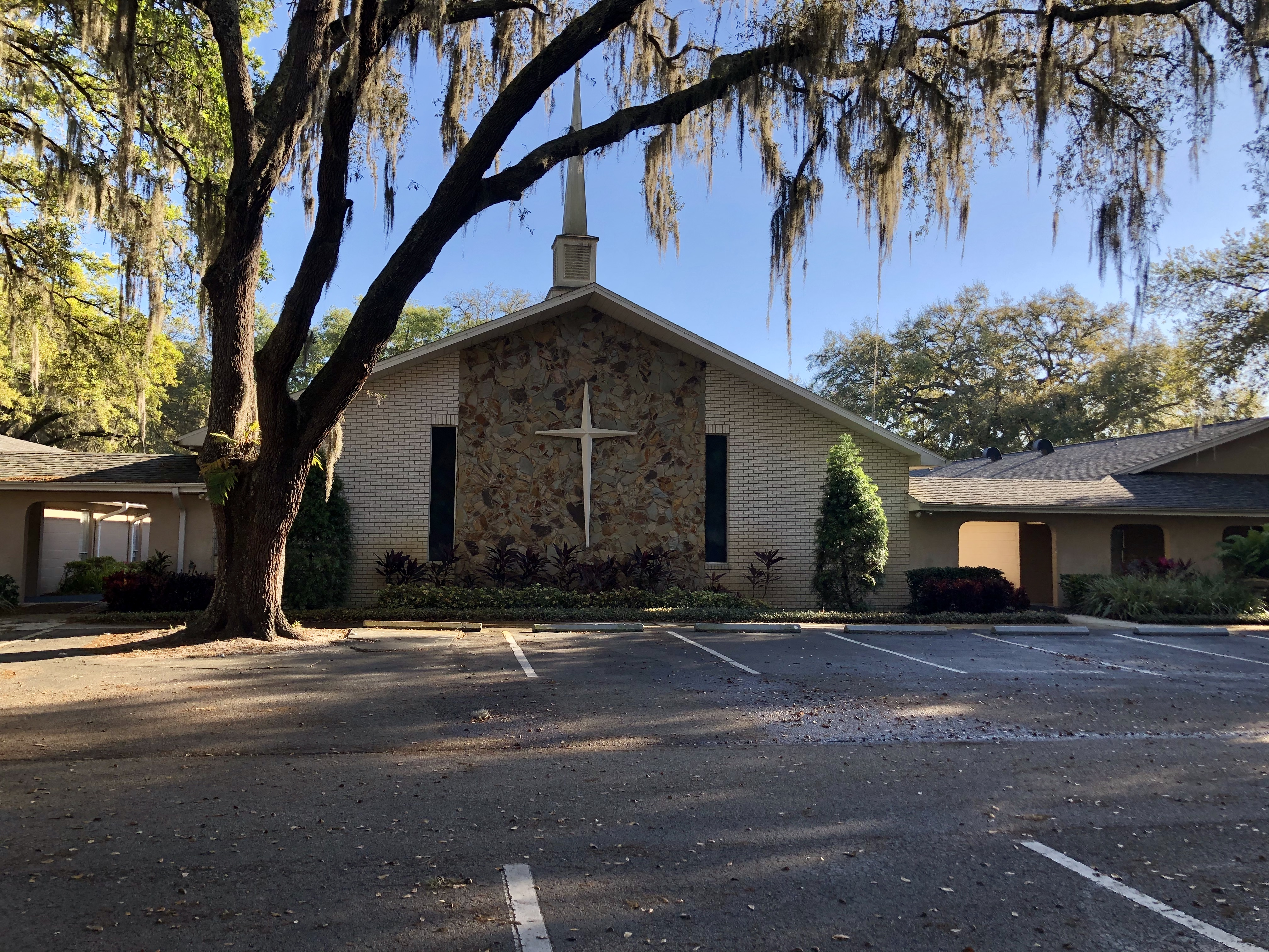 The front of East Thonotosassa Baptist Church in Antioch, Florida.